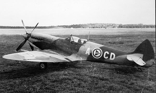 JL361 A-CD (later FN-D/AH-D) was the oldest of the Spitfires brought to Norway, being initially built as a Mk VC, it was transferred to Rolls-Royce to be converted to one of the first of the Merlin 66-equipped LF IXc's in April 1943. Having spent its wartime service life as a test aircraft at Boscombe Down and Farnborough, it was one of the Spitfires bought in 1947 to equip a third fighter squadron but subsequently used as replacement a/c for the two existing units. Codes are white, spinner grey (as upper camo), serial on fin black.